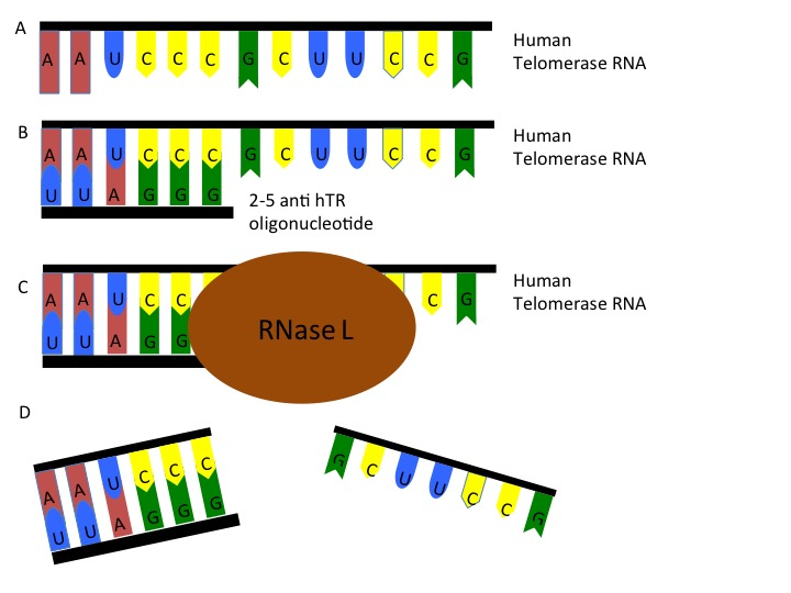 This figure shows how antisense oligonucleotides inhibit telomerase activity